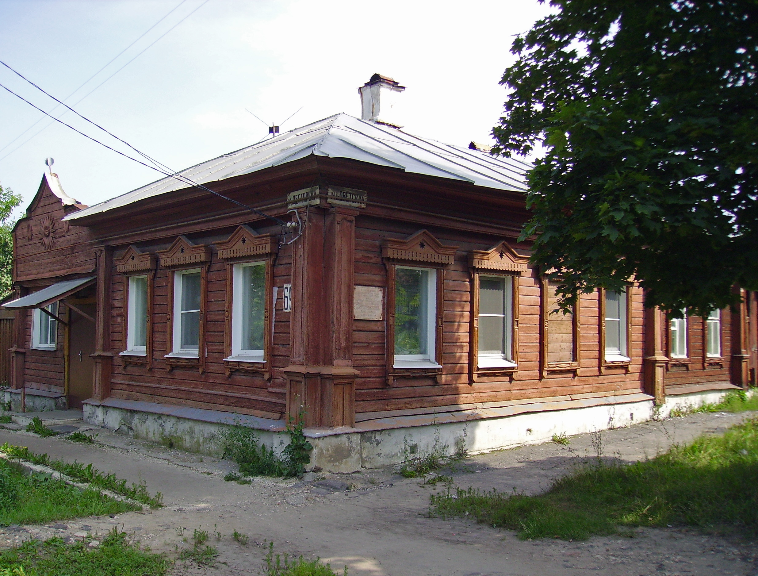 Kovrov. Abelman House